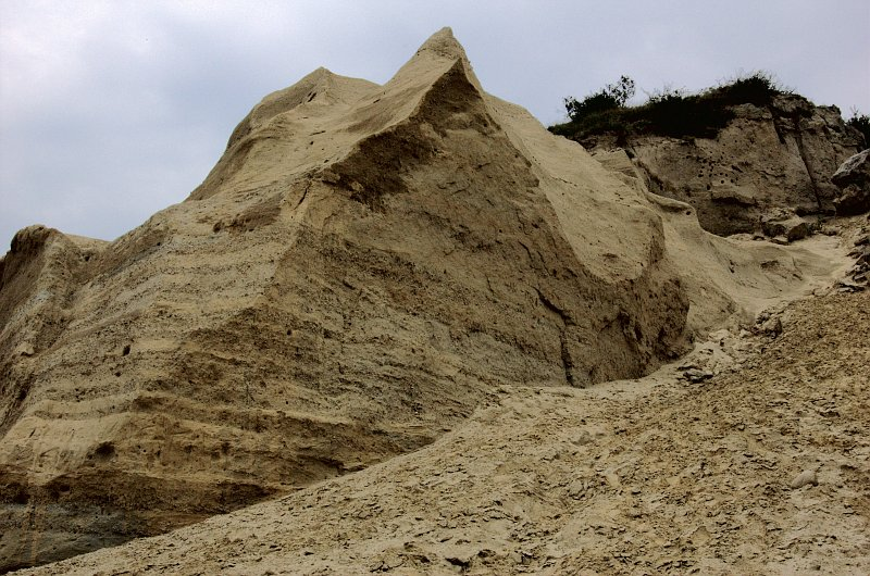 Sandberg